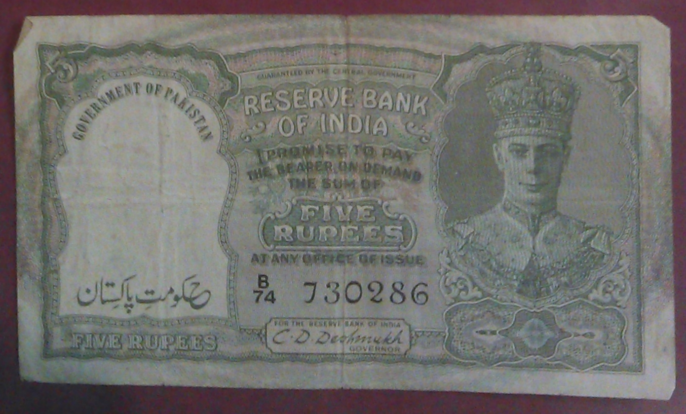 5 Rupees banknote of British India. Note printed between 11-08-1943 to 30-06-1949, the RBI Governor C. D. Deshmukh's tenure.